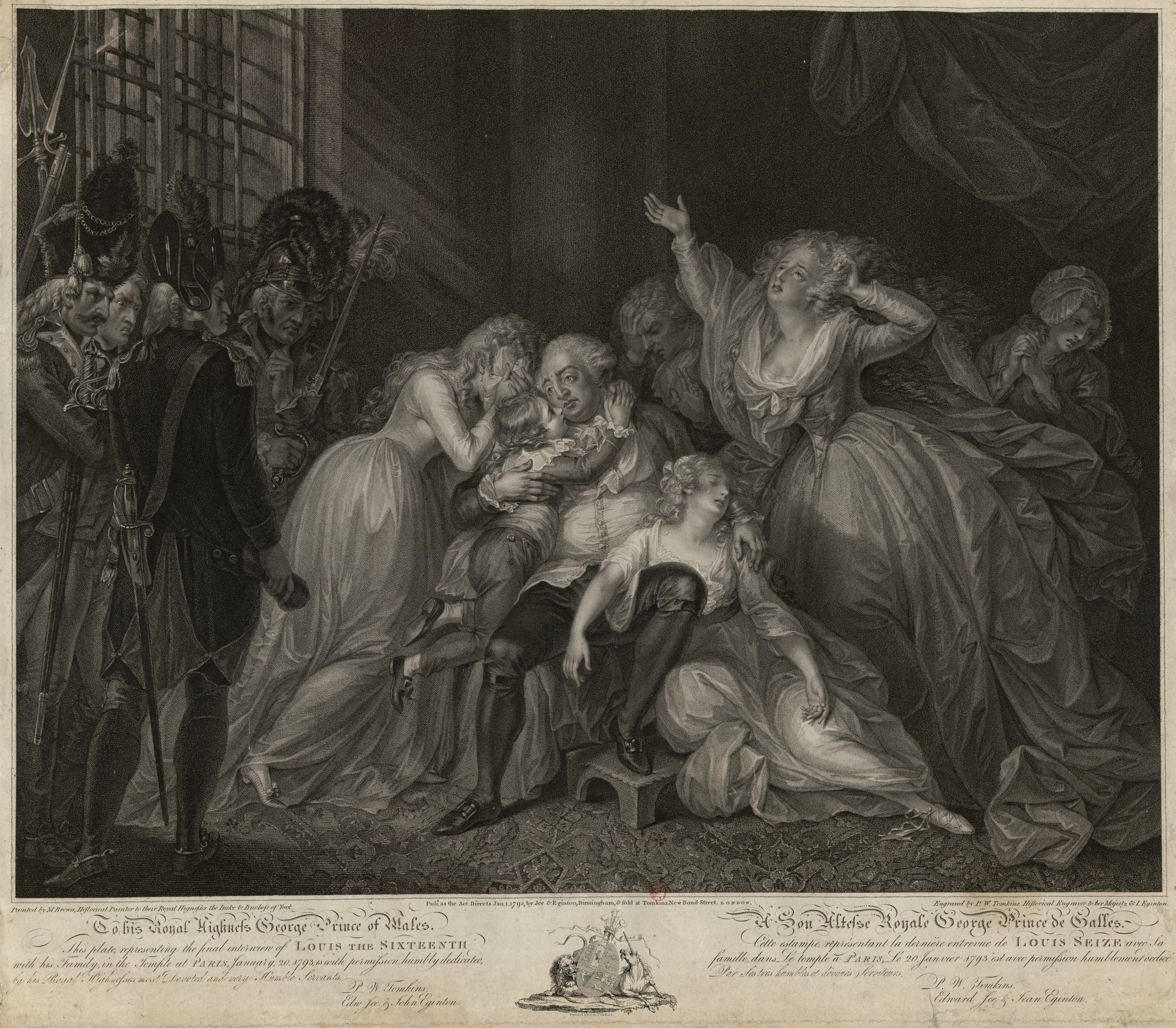 To his Royal Highness George prince of Wales this plate representing the final interwiew of Louis the Sixteenth with his family